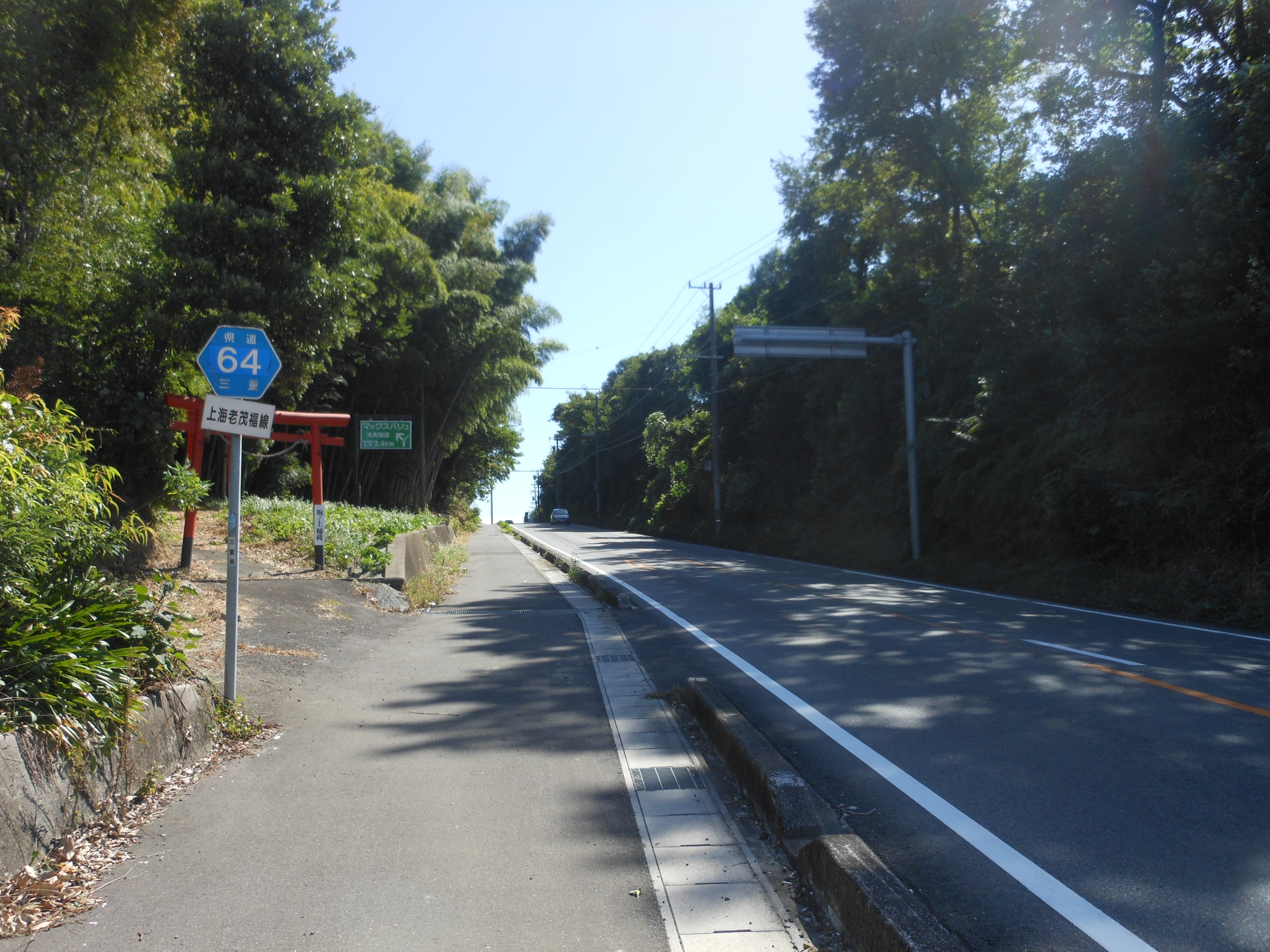 This is a scene of Mie prefectural road No.64 Kamiebi-Mochibuku line in Nakamuracho, Yokkaichi, Mie, Japan.